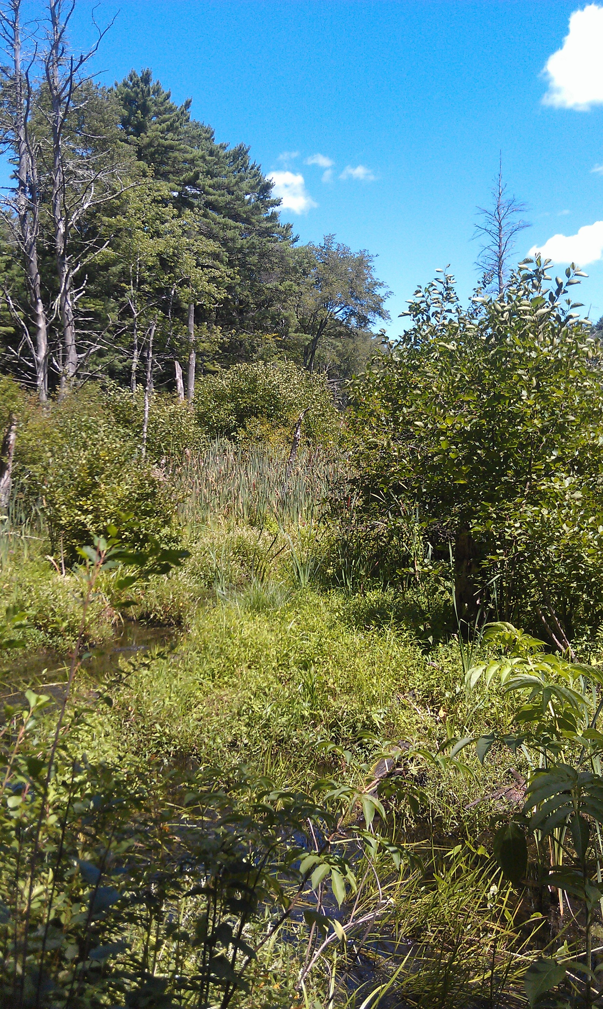 view from trail inside Willowdale State Forest, Topsfield, Massachusetts, USA